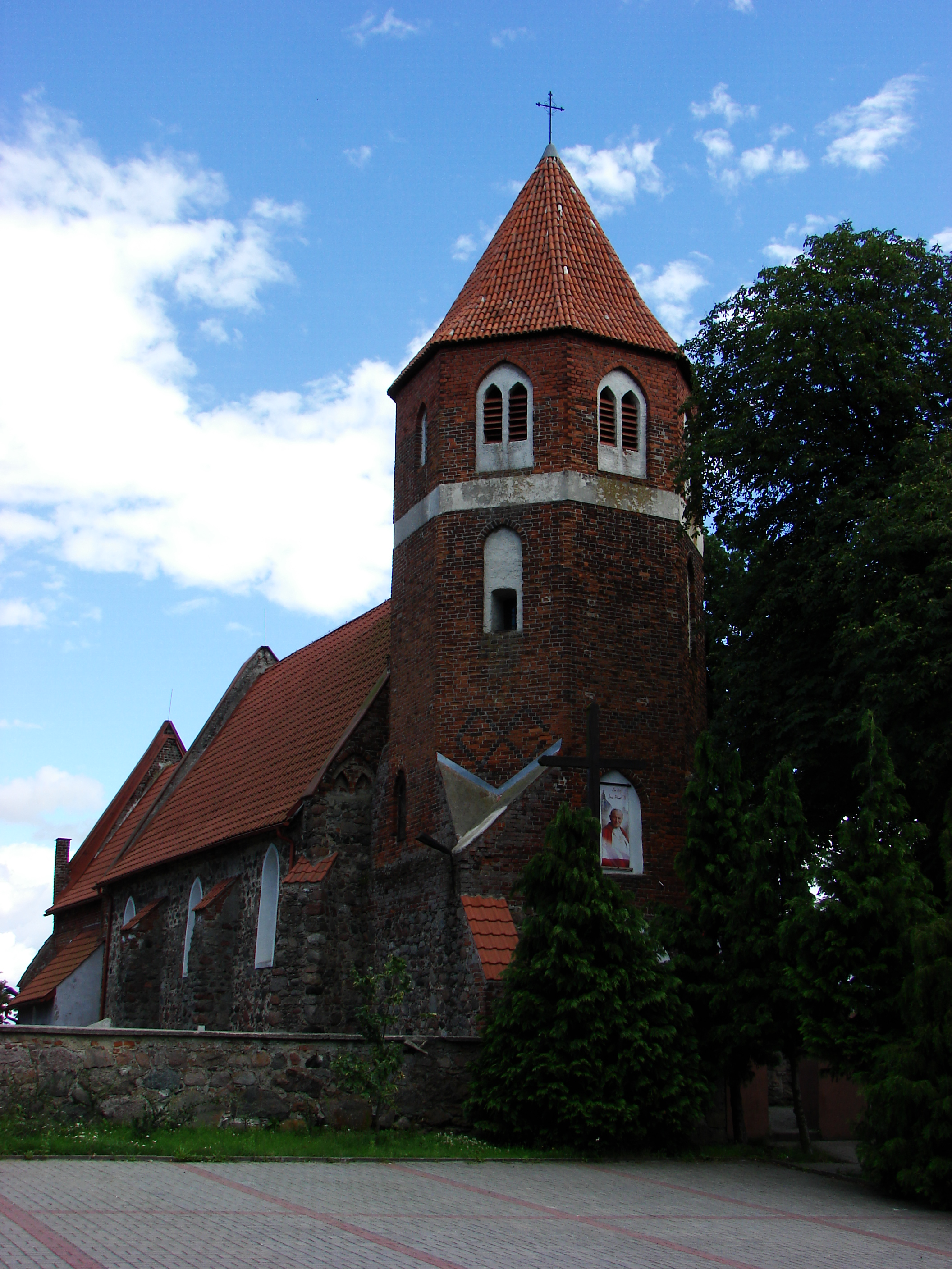 Nowa Wieś Królewska, Wąbrzeźno County, parish church